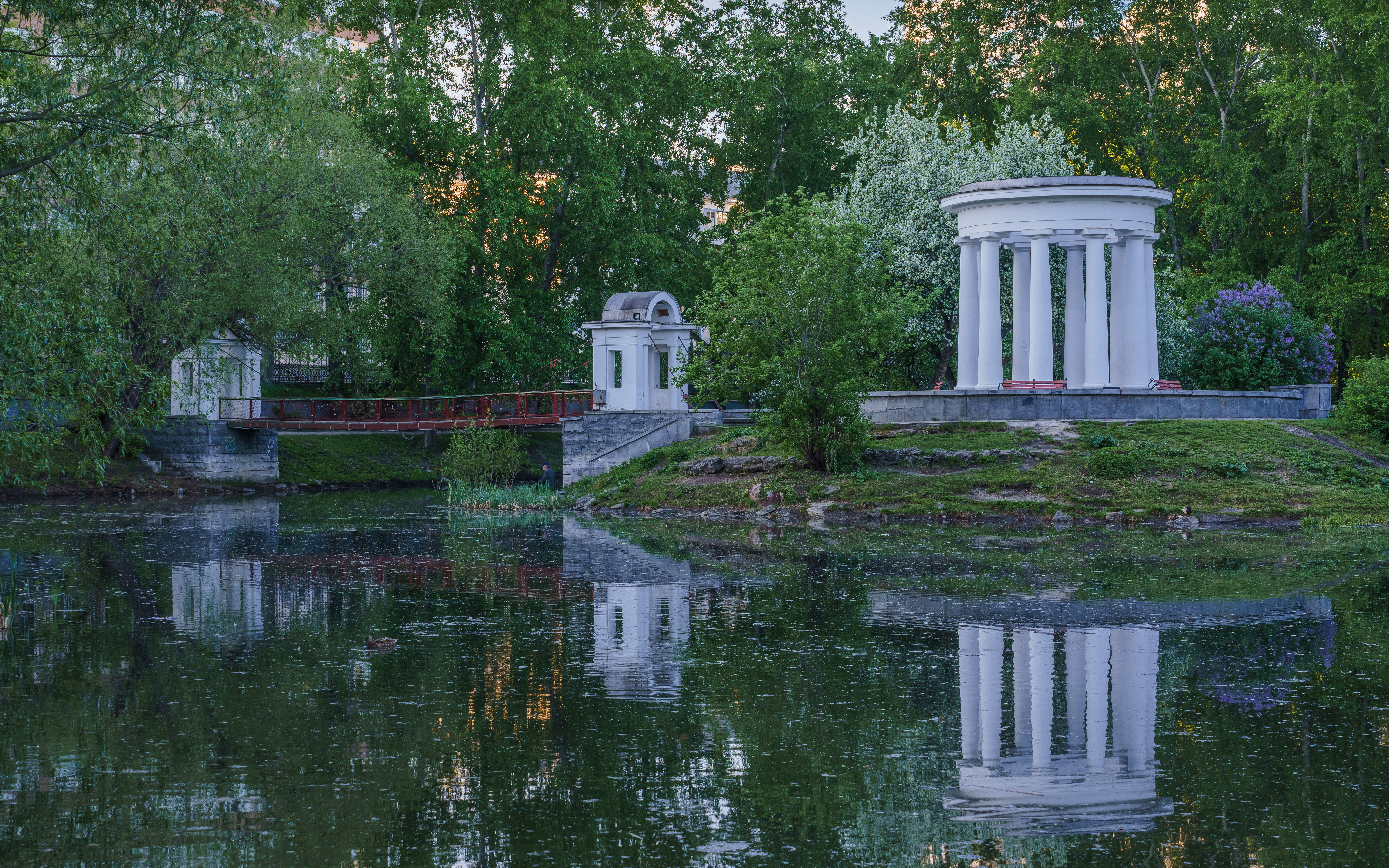 Kharitonov Garden in Ekaterinburg, Russia